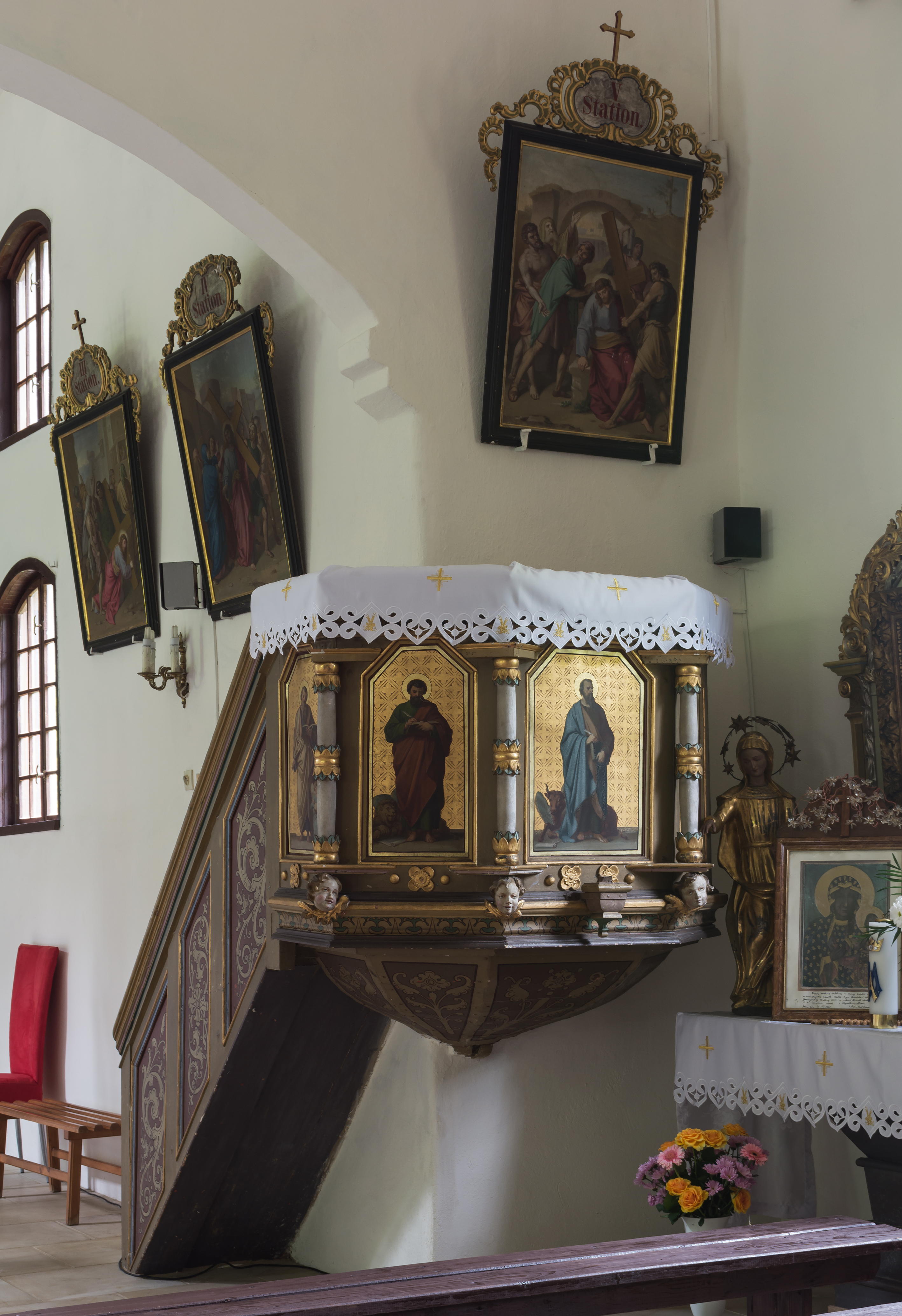 Church of the Assumption in Nowa Bystrzyca